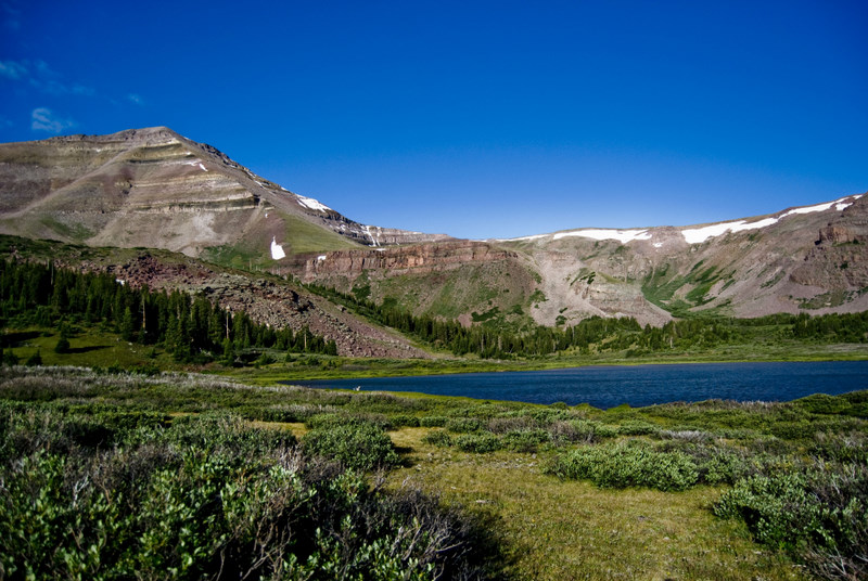 Picture taken during hiking trip August 2009.